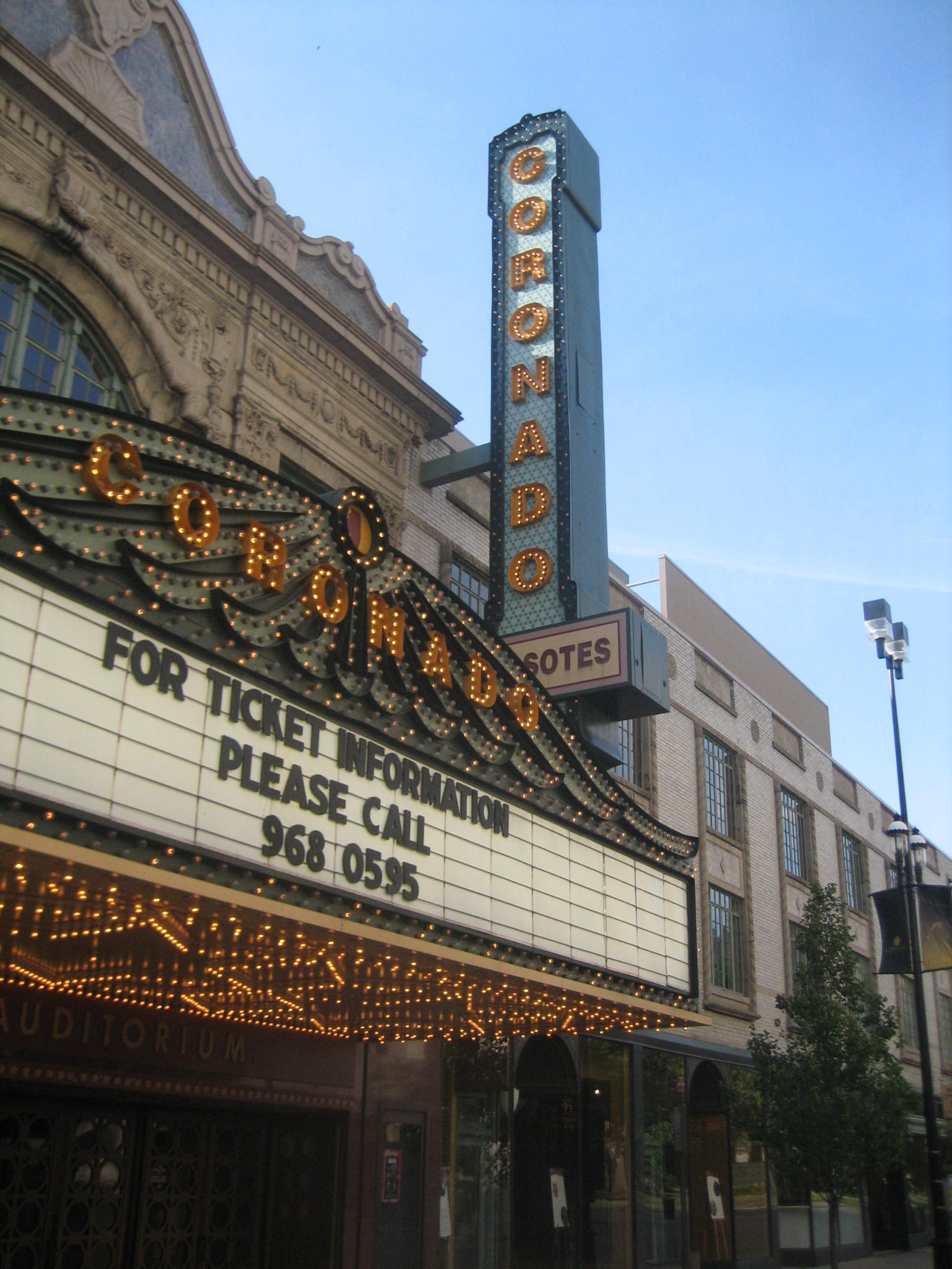 Coronado Theater, Rockford, Illinois, USA. U.S. National Register of Historic Places.